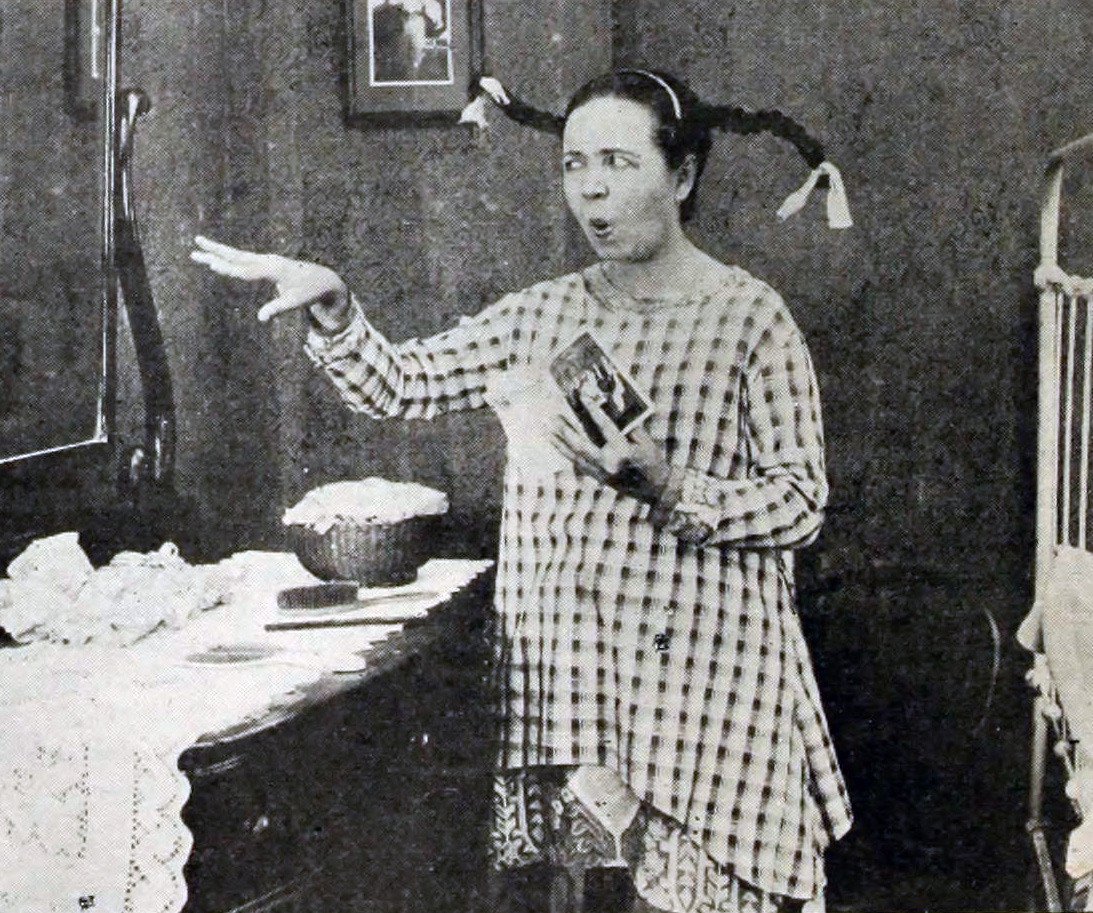 Illustration of an article in The Moving Picture World